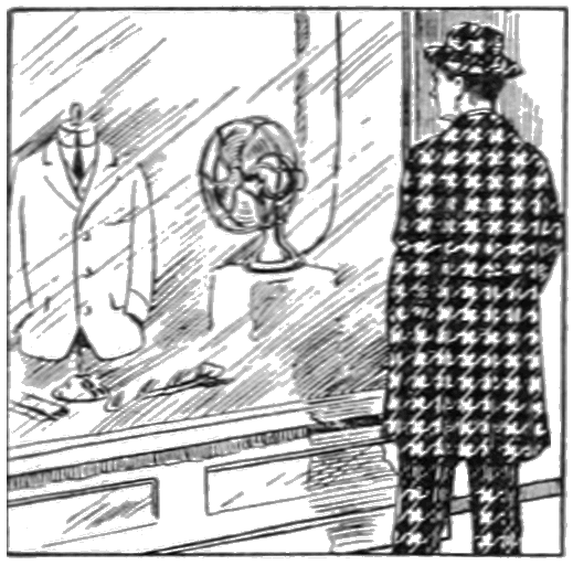 Clearing a show window using an electric fan